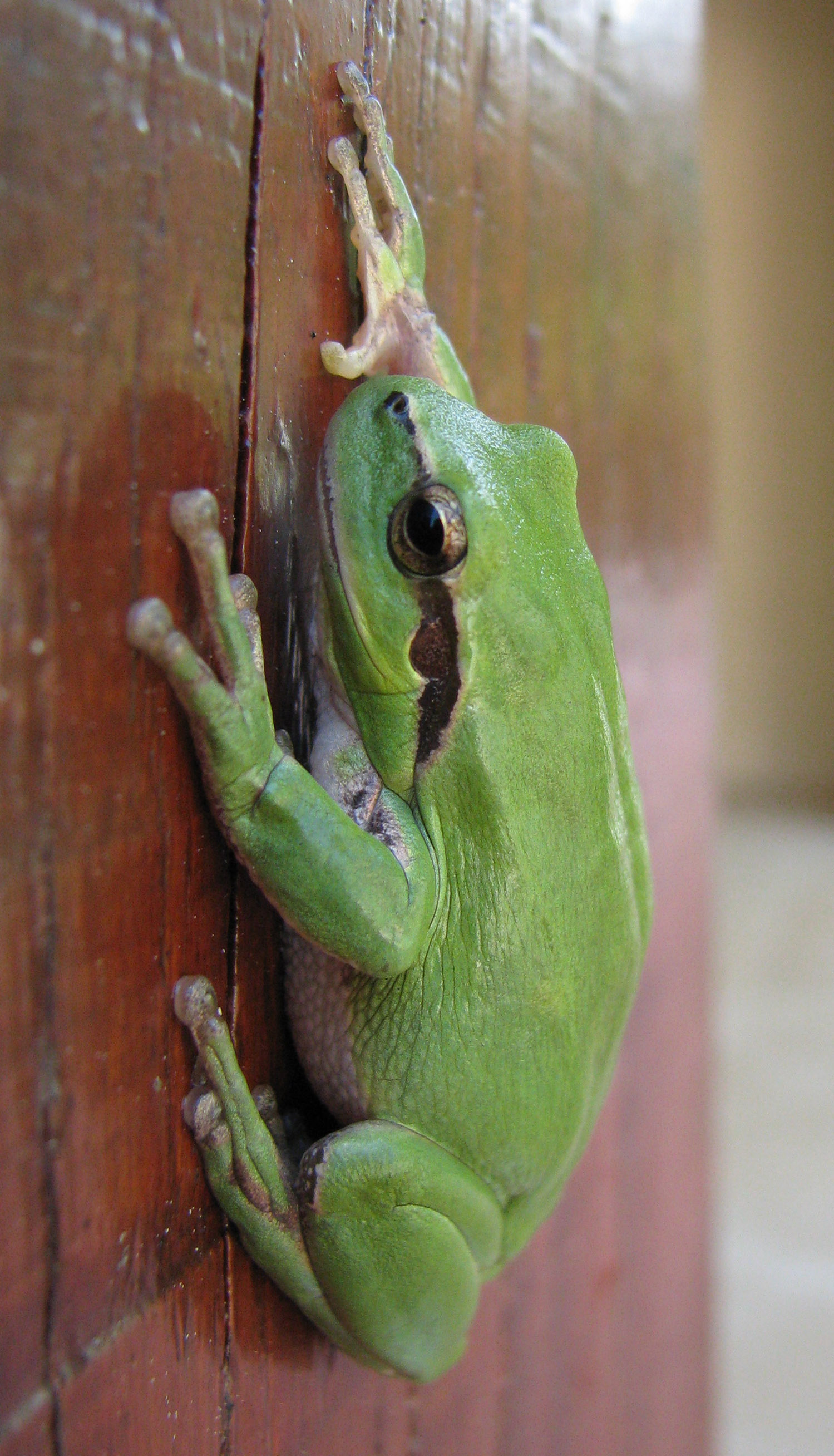 Hyla meridionalis, South west of France (Marmande, dep. 47)